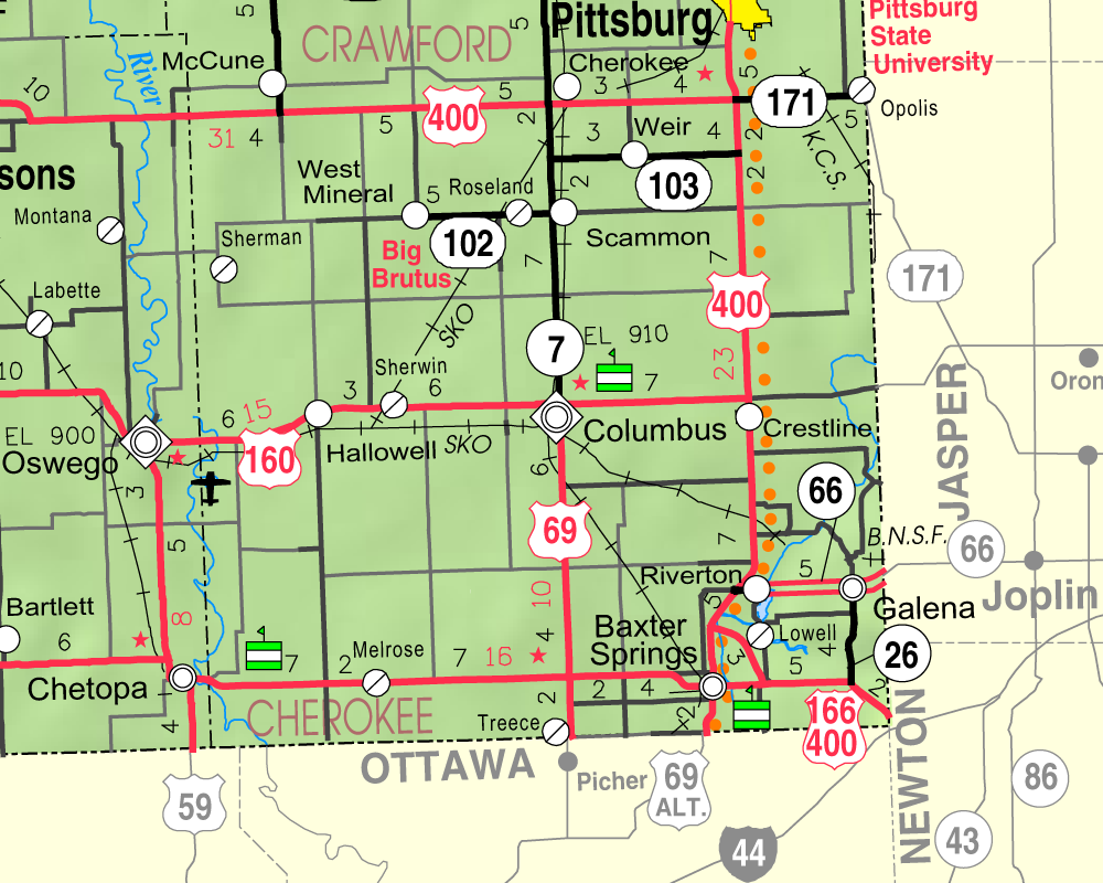 This map of Cherokee County, Kansas, USA, is copied at a resolution of 300 pixels/inch from the original PDF file.